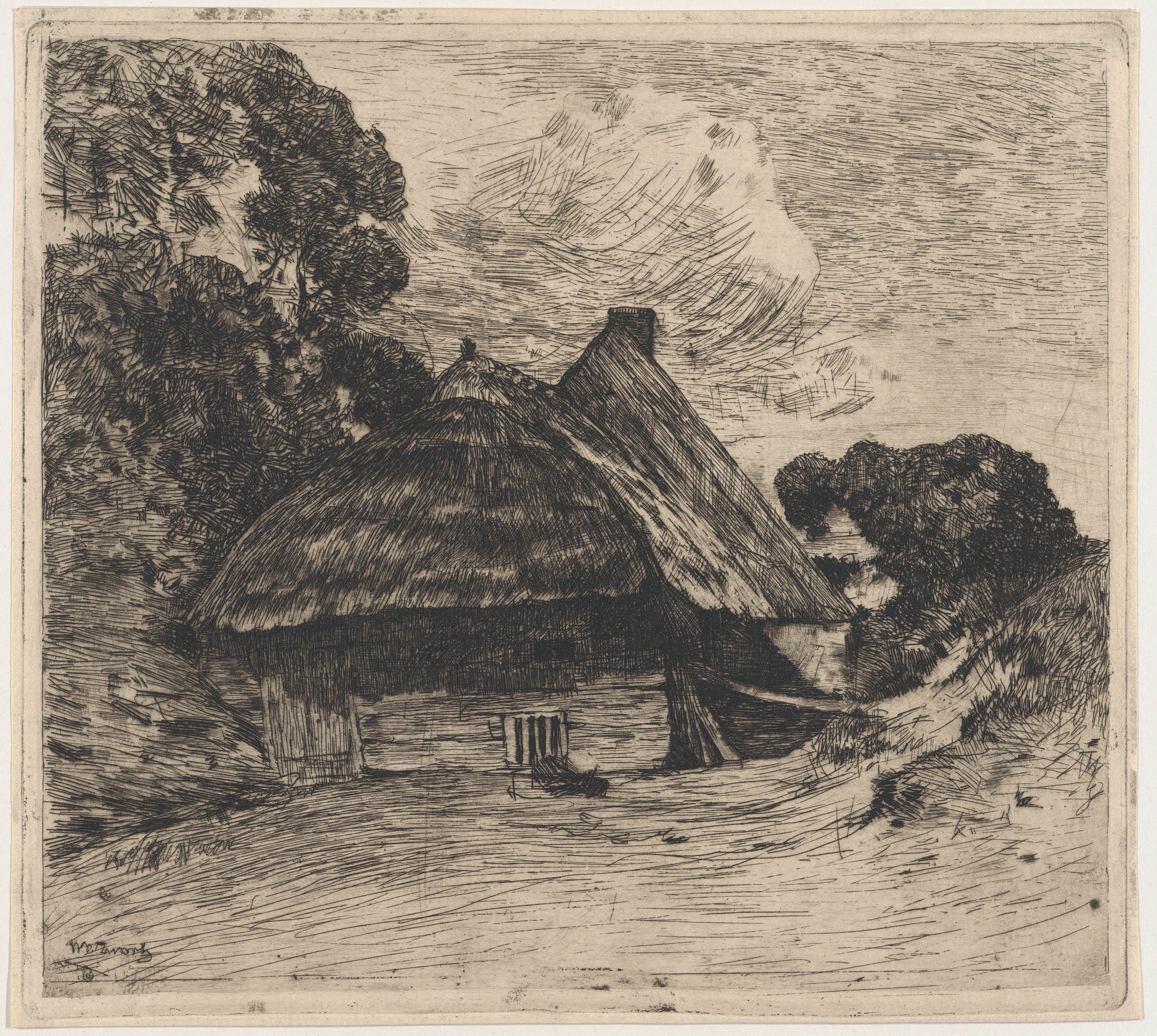 Print; Prints